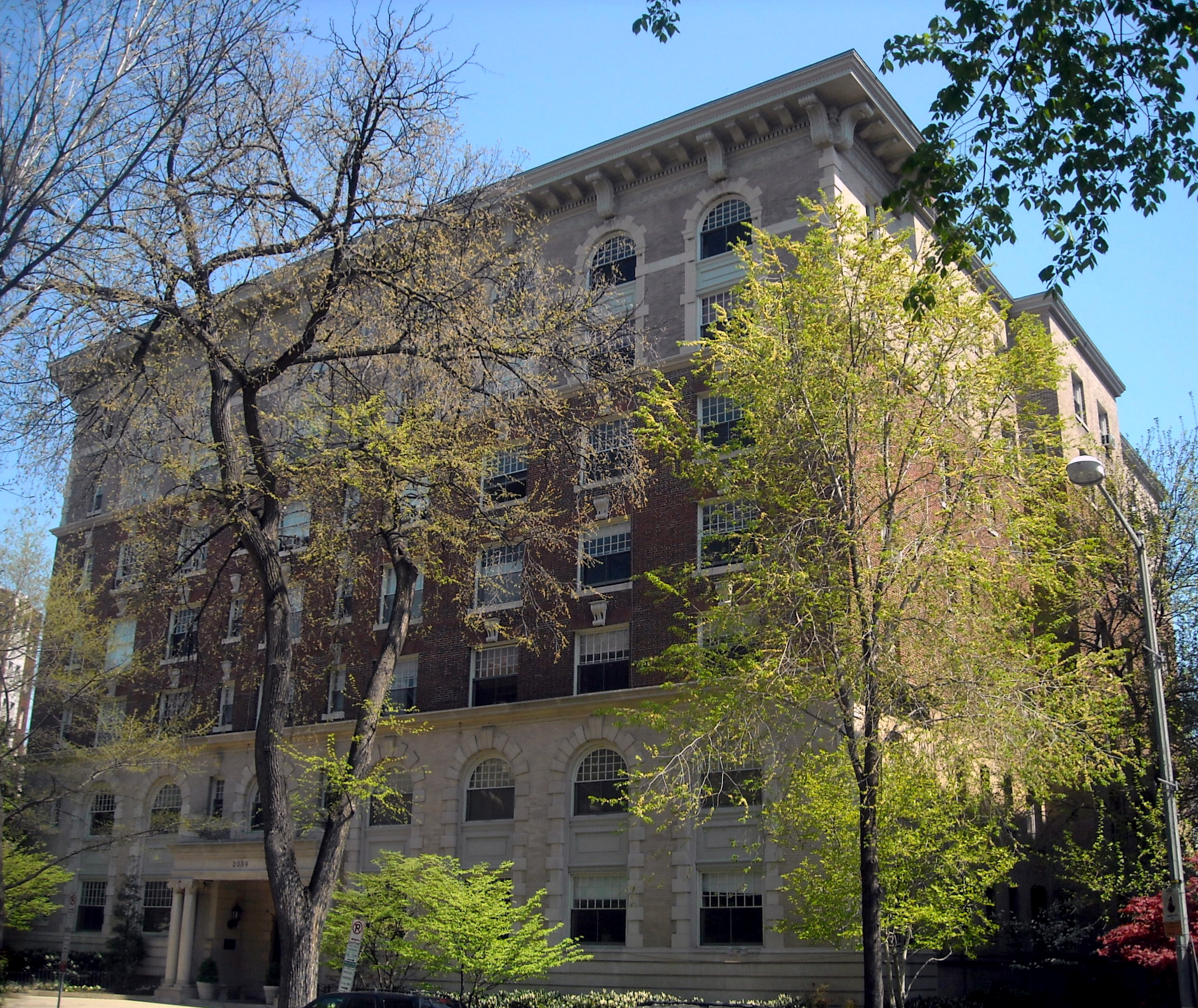 The Northumberland, (historically known as The Northumberland Apartments) located at 2039 New Hampshire Avenue, N.W., in the U Street Corridor of Washington, D.C. Built in 1910, the Classical Revival-style co-op building was constructed by Harry Wardman, a prominent real estate developer, and designed by architect Albert Beers. The Northumberland was listed on the National Register of Historic Places (NRHP) in 1980. It is designated as a contributing property to the Greater U Street Historic District, listed on the NRHP in 1998; in addition, the building is designated as a D.C. Historic Landmark, listed on the District of Columbia Inventory of Historic Sites in 1978.